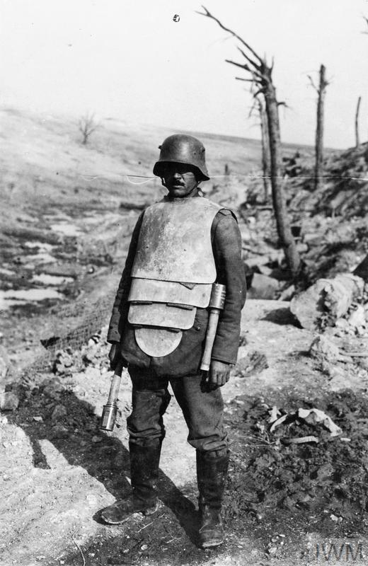 THE GERMAN ARMY ON THE WESTERN FRONT, 1914-1918 A German stormtrooper on the Somme wearing a body armour. Note two potato mashers-grenades he is armed with.